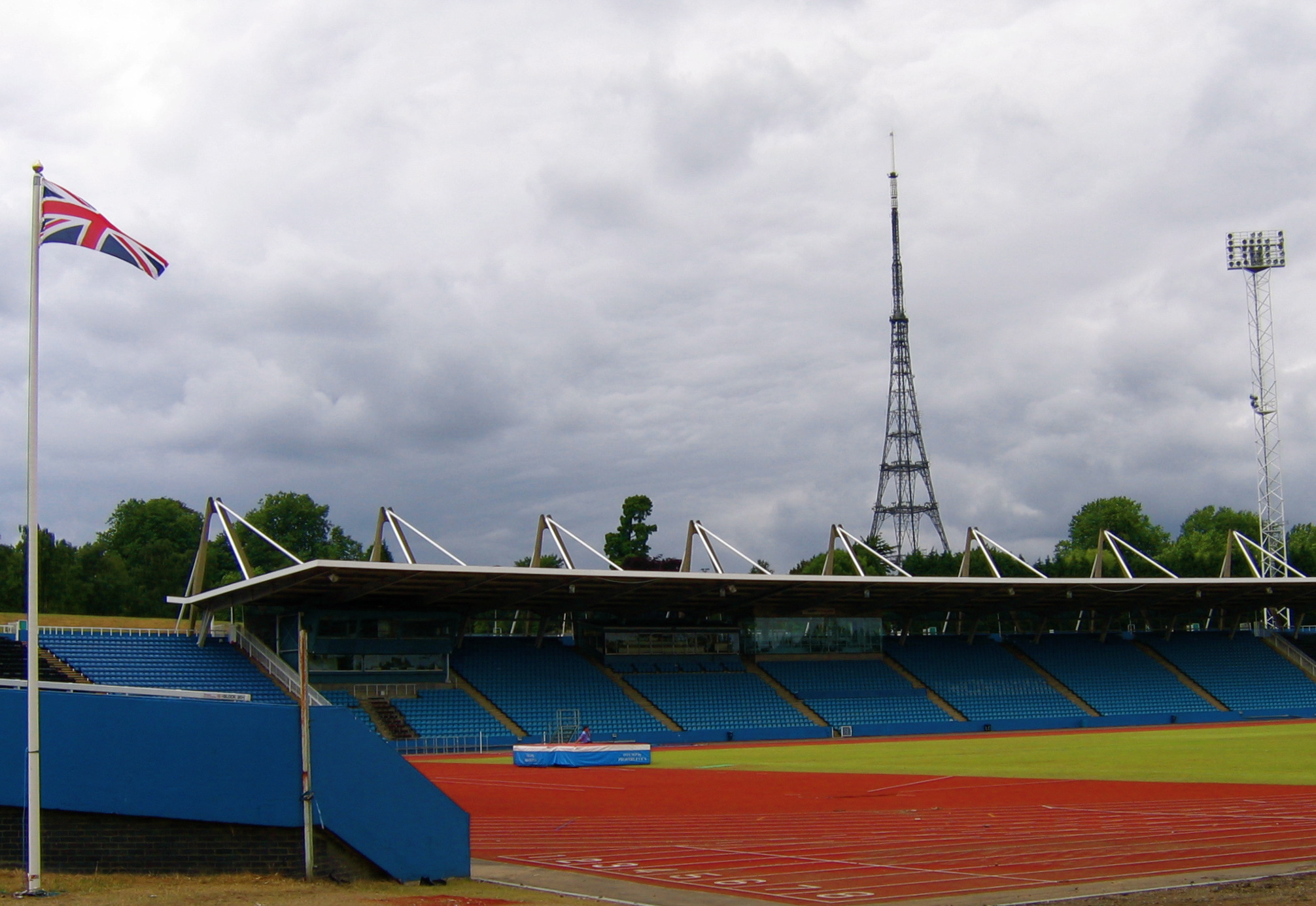 Crystal Palace National Sports Centre